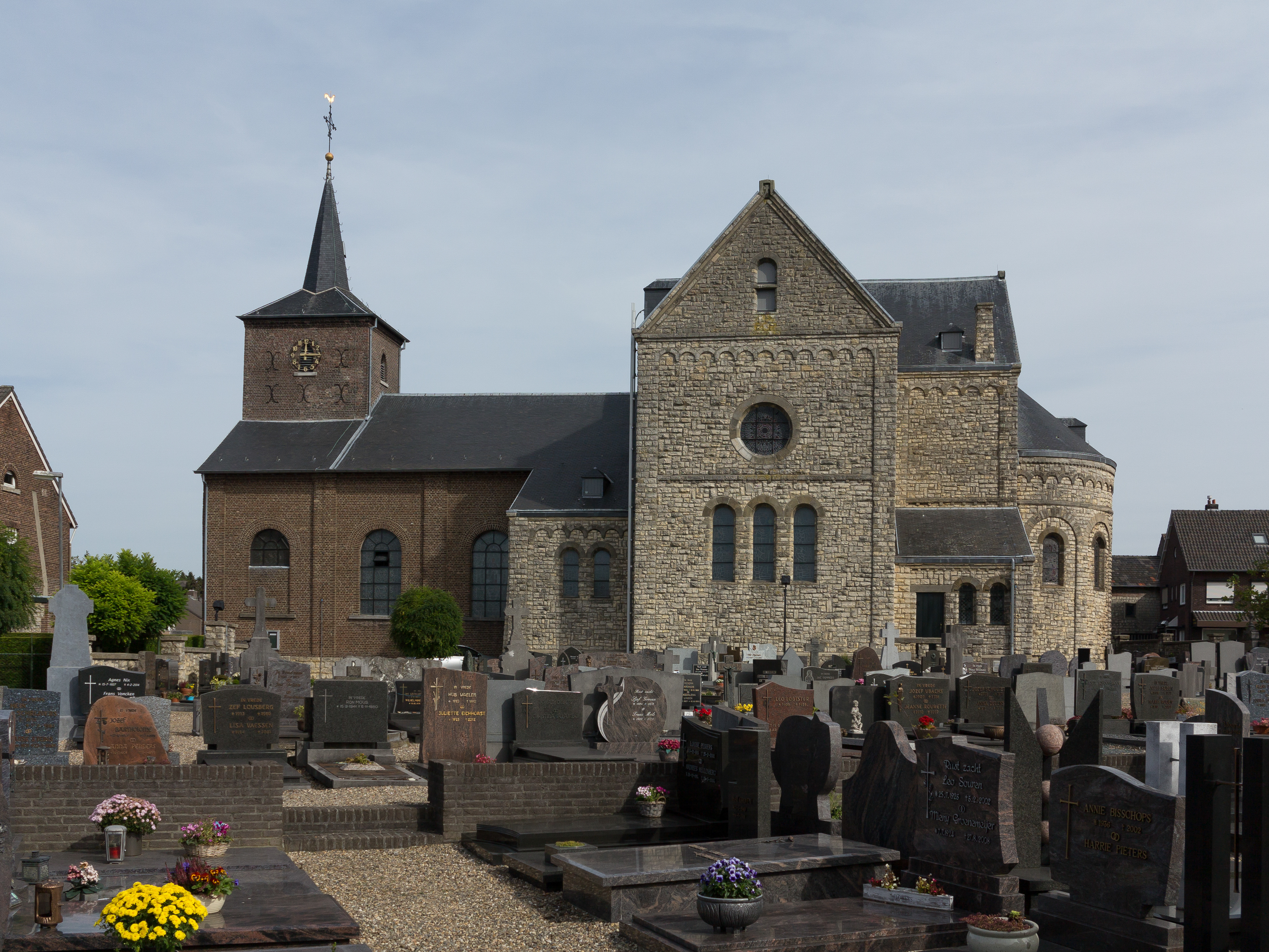 Ubachsberg, catholic church